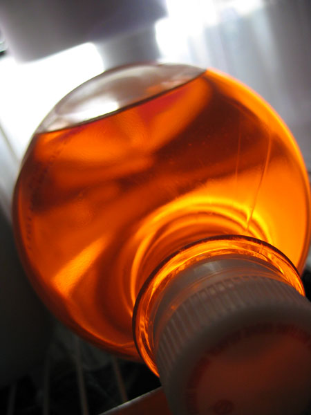 A bottle found in my refrigerator. That's a Brita pitcher behind it.